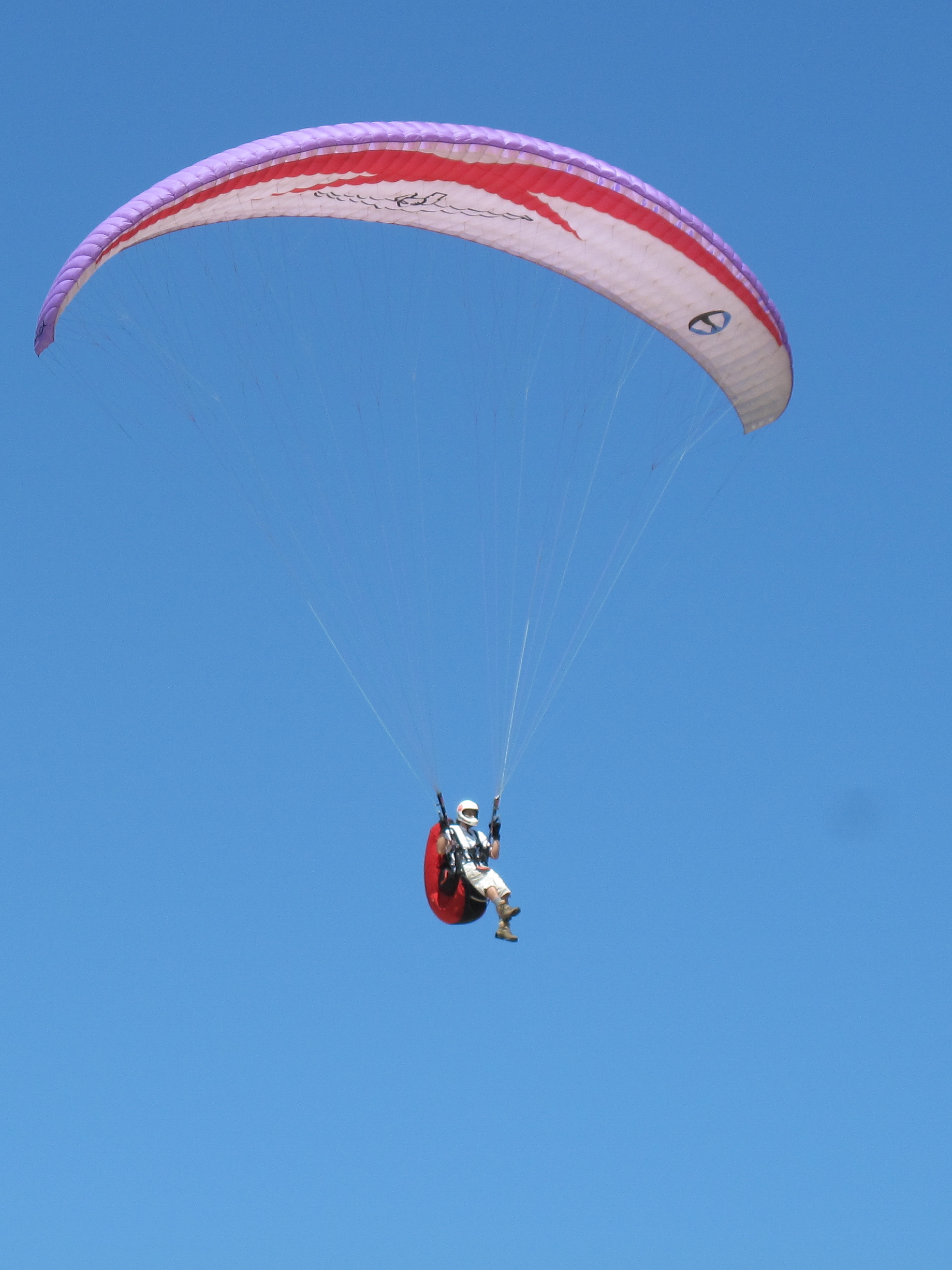 Paraglider: Windtech Quarx